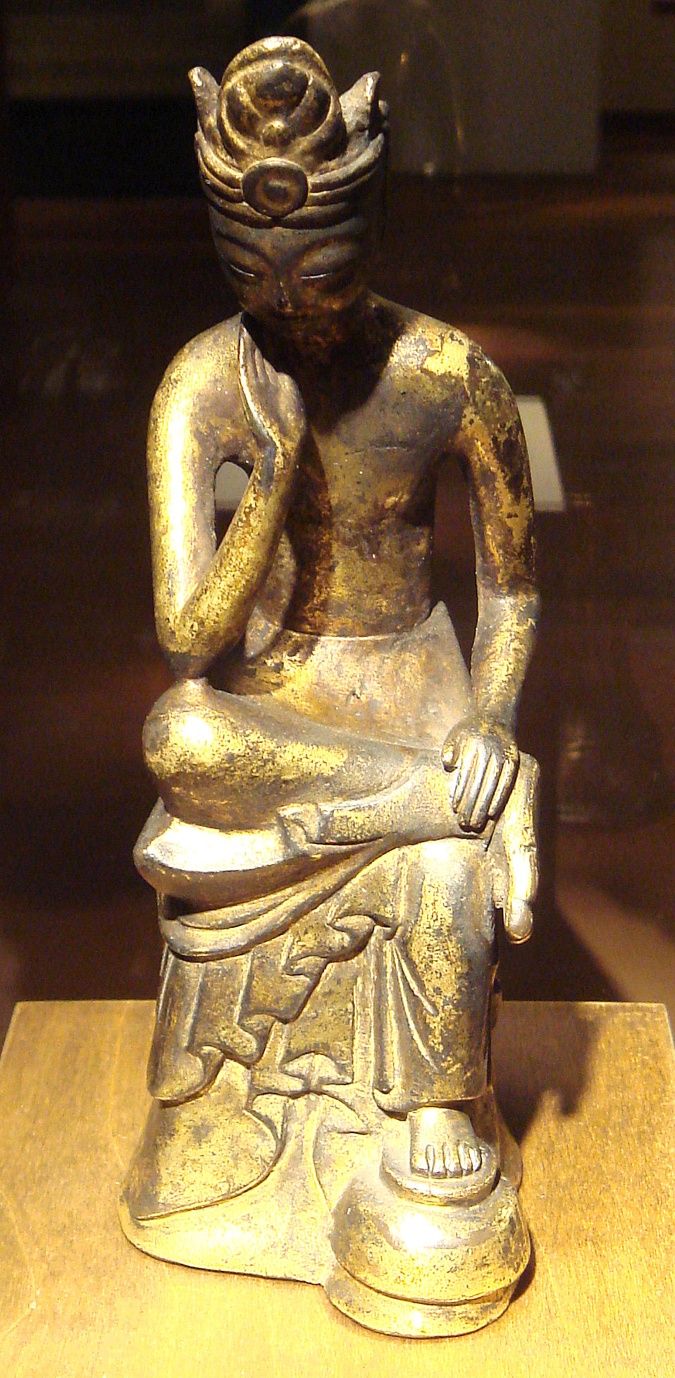 Pensive Bodhisattva Maitreya made in Baekje 6th century. Gilt bronze, H. 15.5 cm; L.: 5.5 cm. Exhibited at Musée Guimet, Paris.